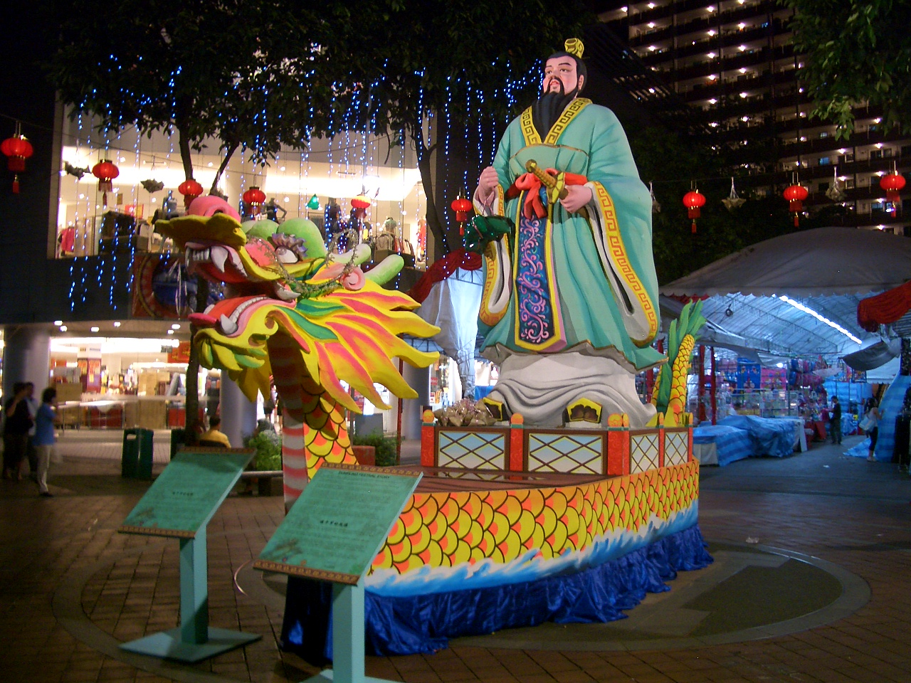 A statue of Qu Yuan in a dragon boat on one of Singapore's central streets. A display for the Dragon Boat Festival.